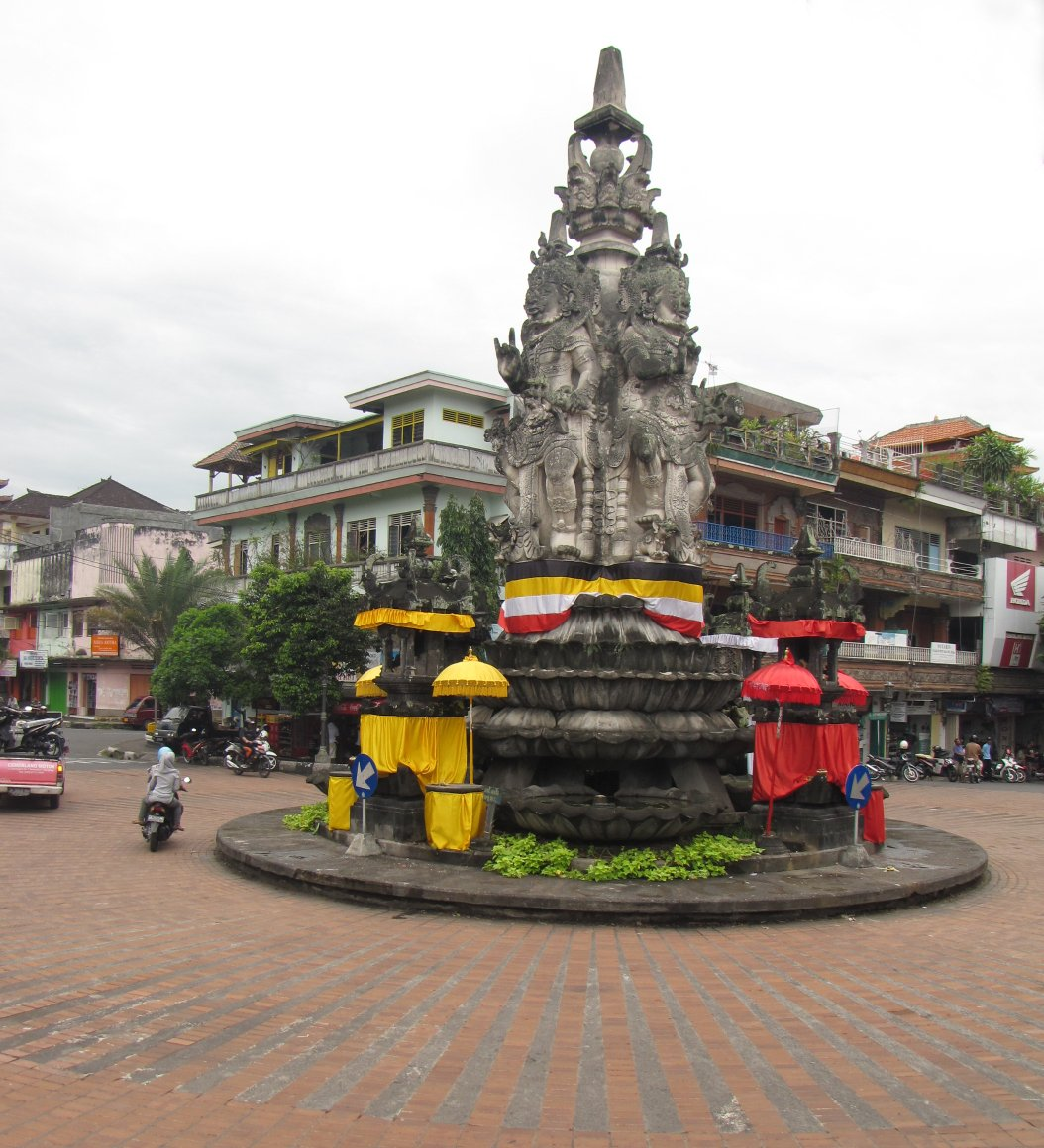 Kandapat Sari statue in Semarapura, Klungkung Regency, Bali.